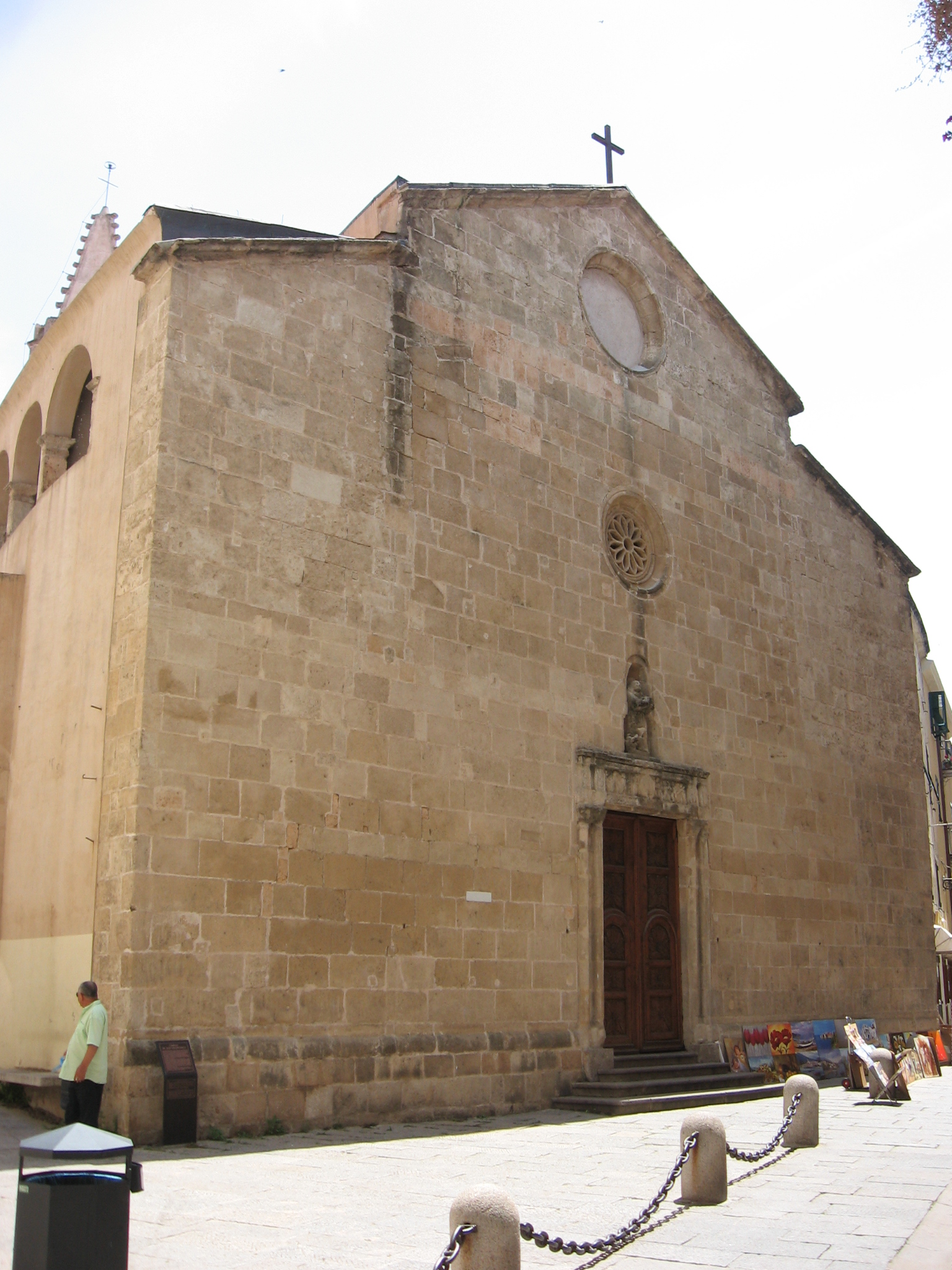 Alghero